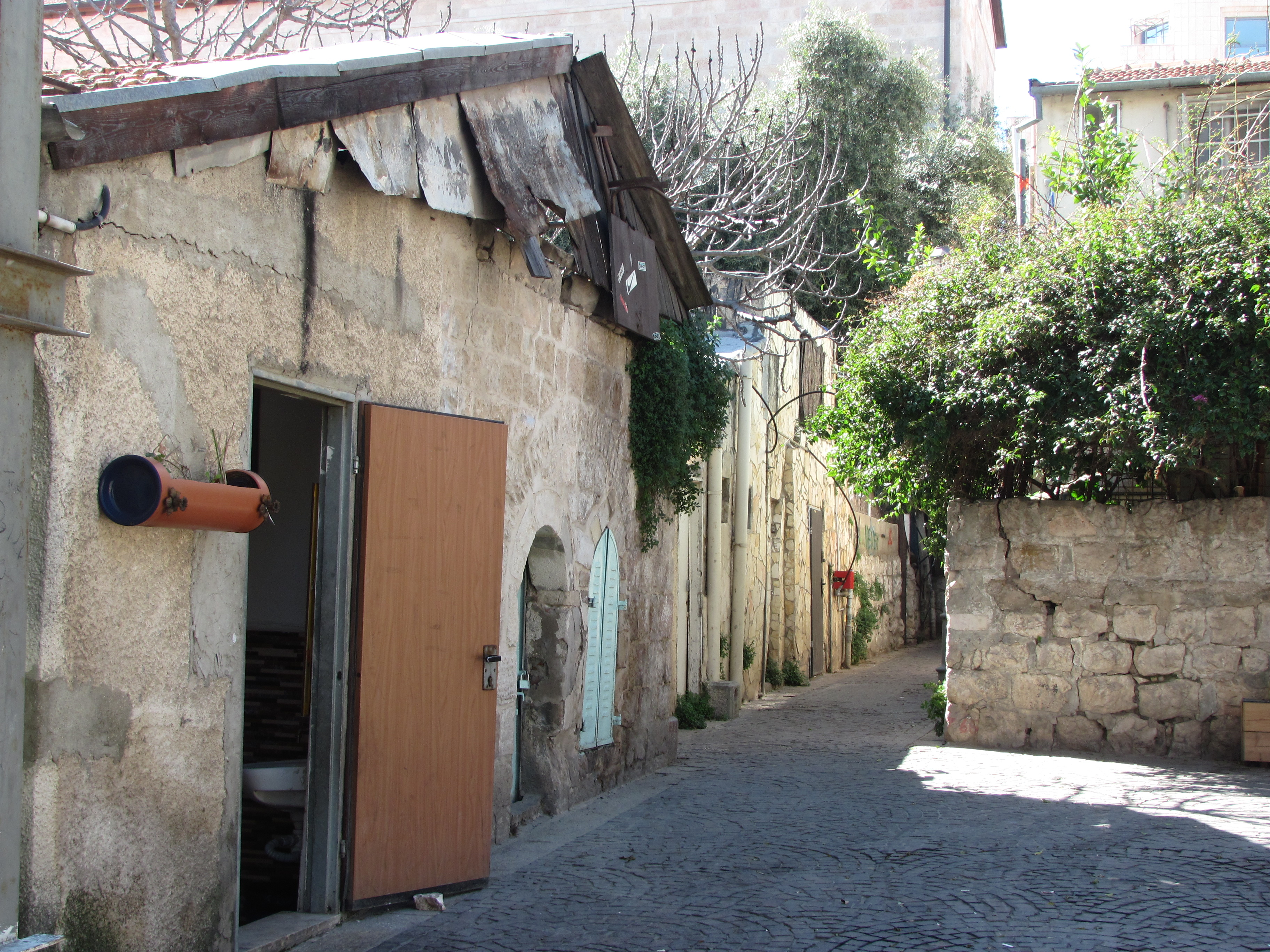 Workshop in historical neighborhood of Even Yisrael, Jerusalem, Israel.